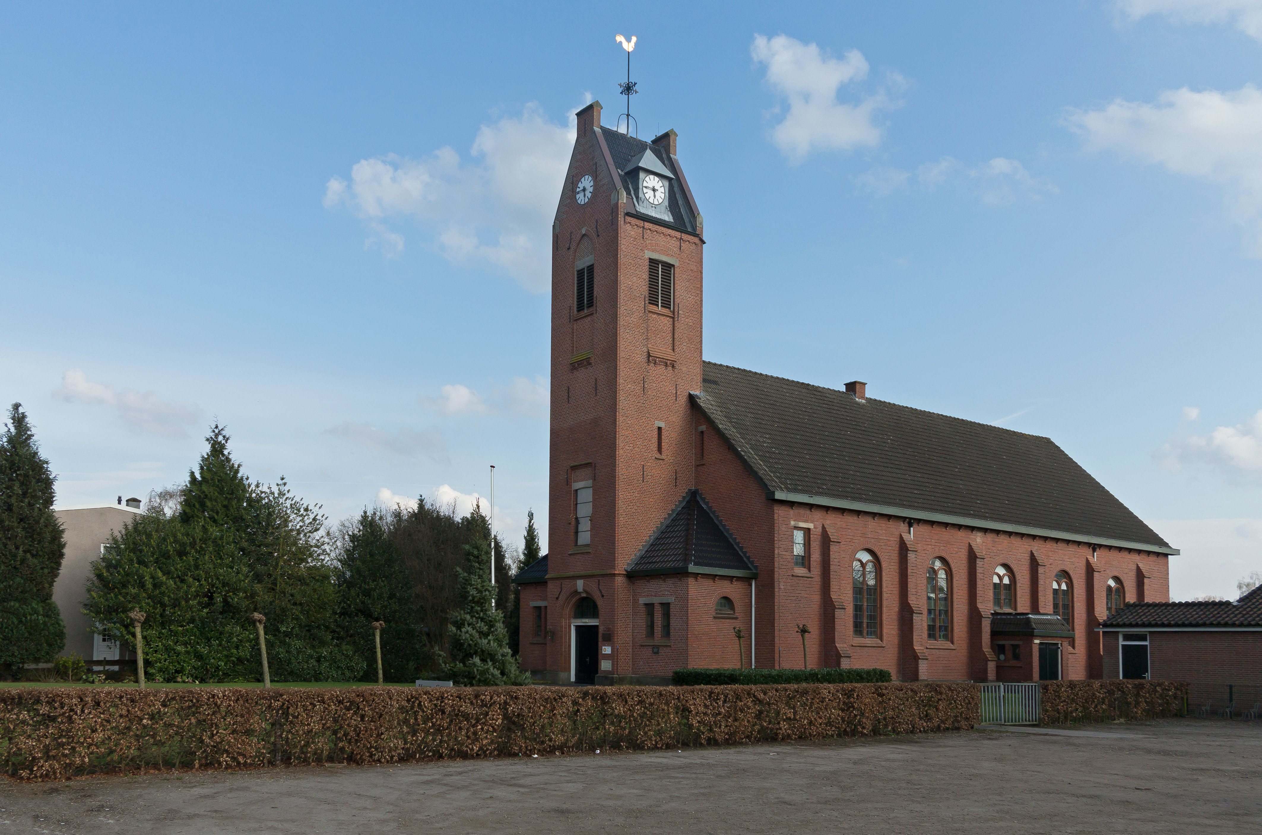 Glanerbrug, reformed church